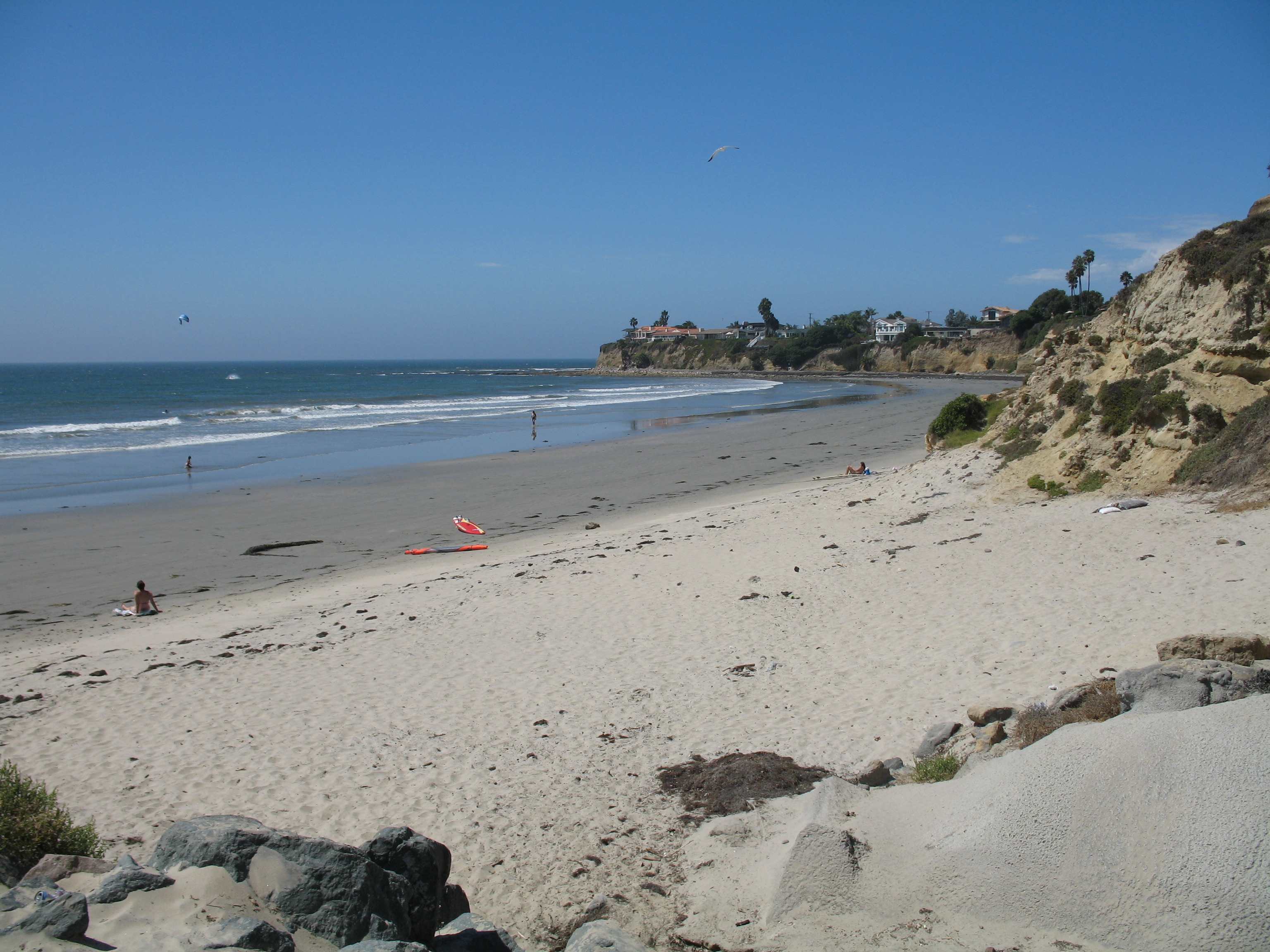 A view of the beach at Tourmaline Surfing Park in Pacific Beach, Southern California in September 2006